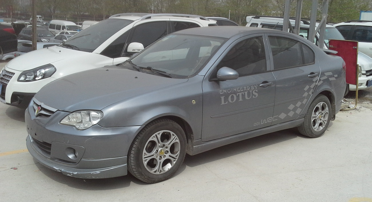 Youngman-Lotus L3 sedan photographed in Zhengzhou, Henan province, China.